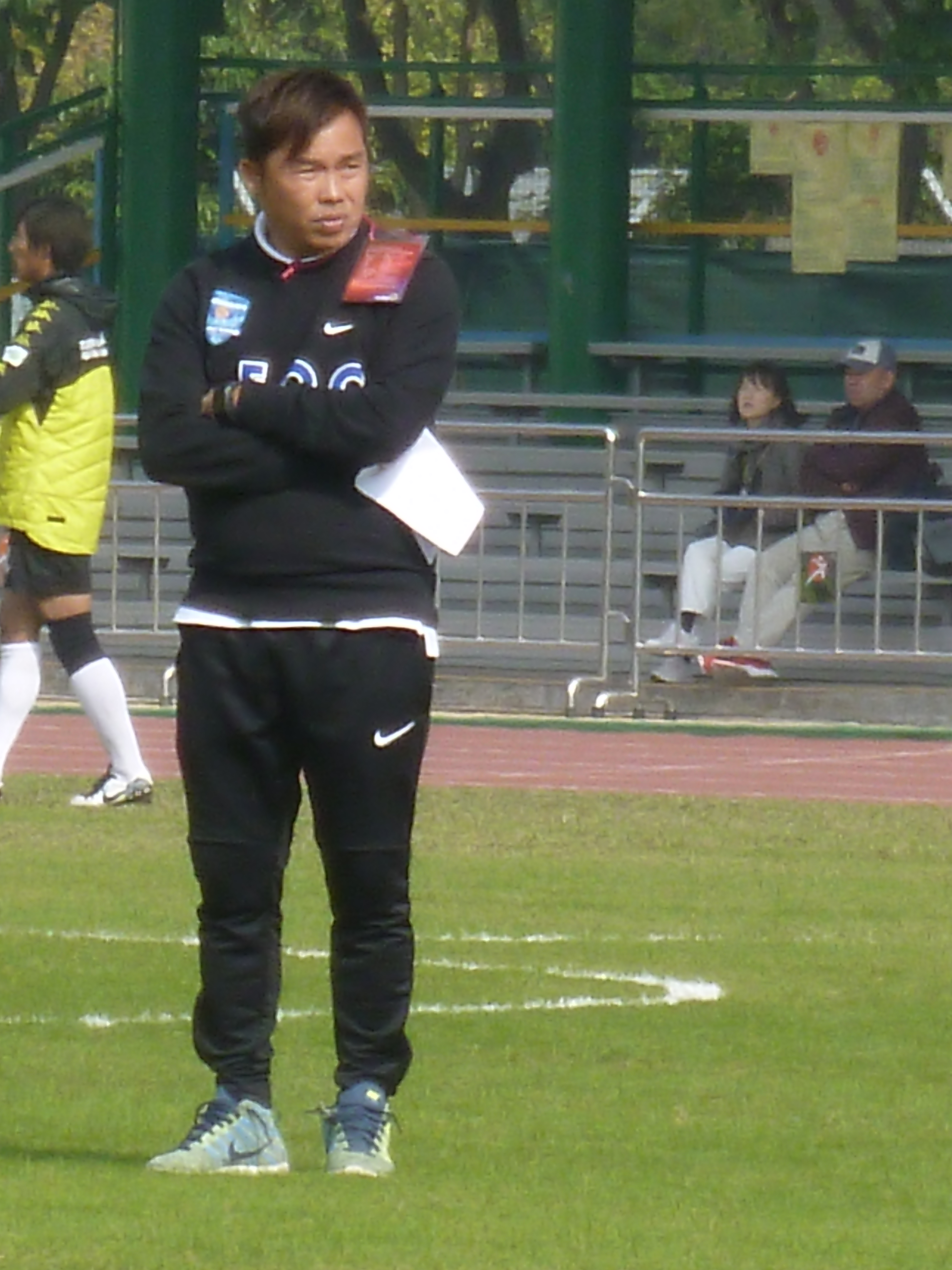 Lee Chi Kin (22 Dec 2013, Hong Kong First Division League, Tuen Mun vs Yokohama FC (HK), Tuen Mun Tang Shiu Kin Sports Ground) 中文（香港）: 李志堅 (22 Dec 2013, 香港甲組足球聯賽, 屯門 vs 橫濱FC(香港), 屯門鄧肇堅運動場)